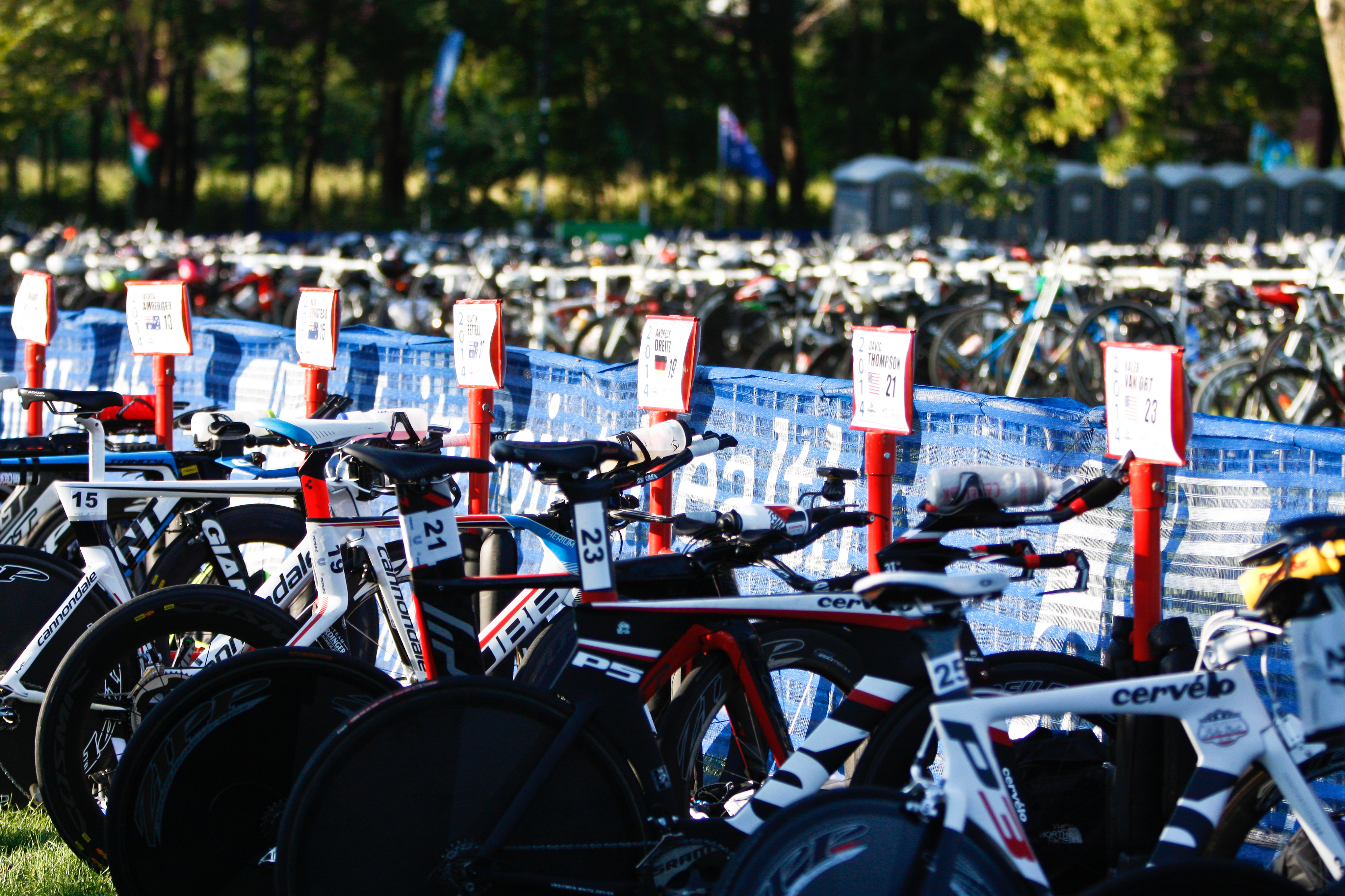 Elite Cup bicycles lined up in the transition zone of Hy-Vee Triathlon Des Moines 2014. Photos from the 5150 Elite Cup competition at the 2014 HyVee Triathlon.